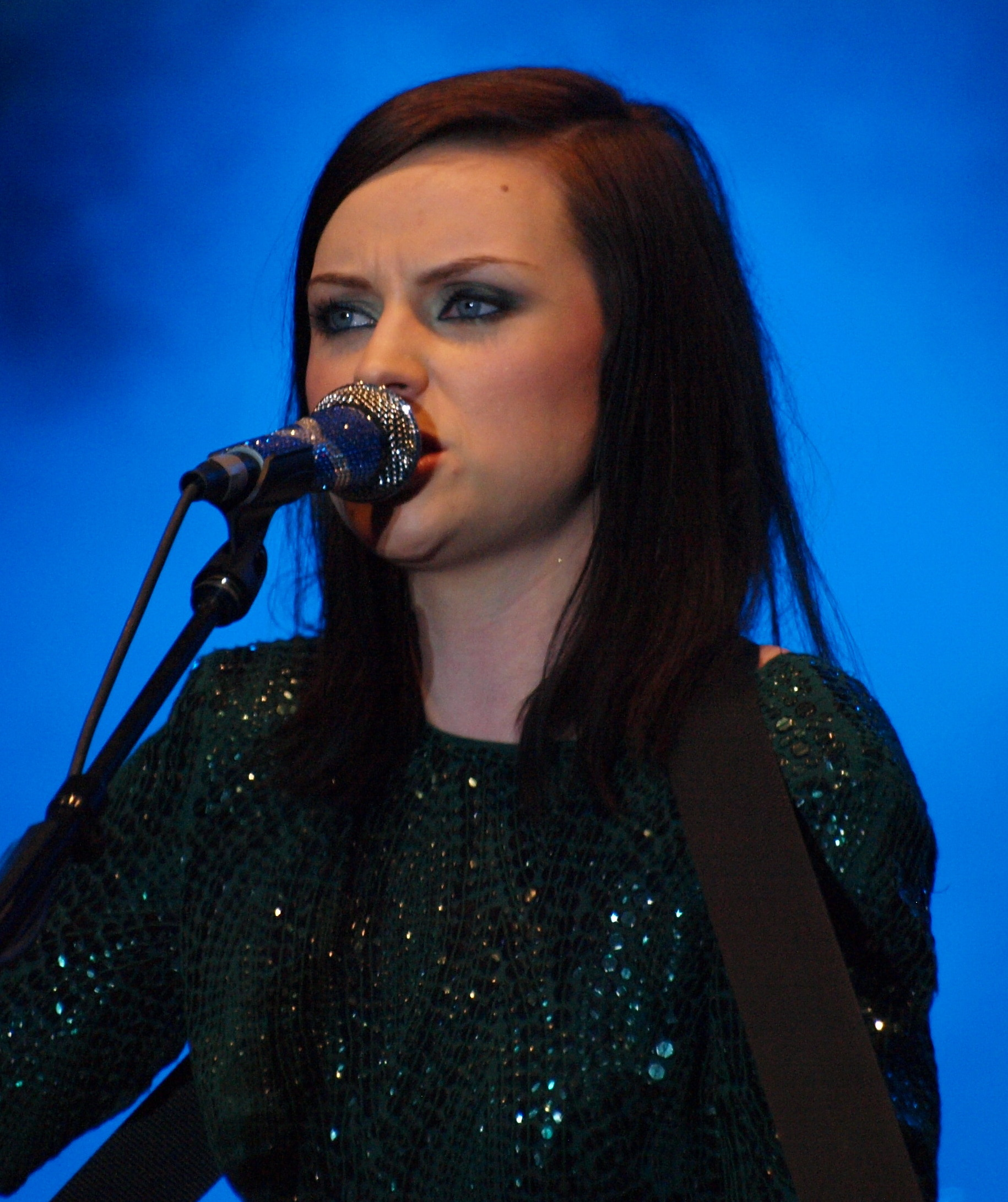 Amy Macdonald at Rix FM Festival in Kungsträdgården, Stockholm